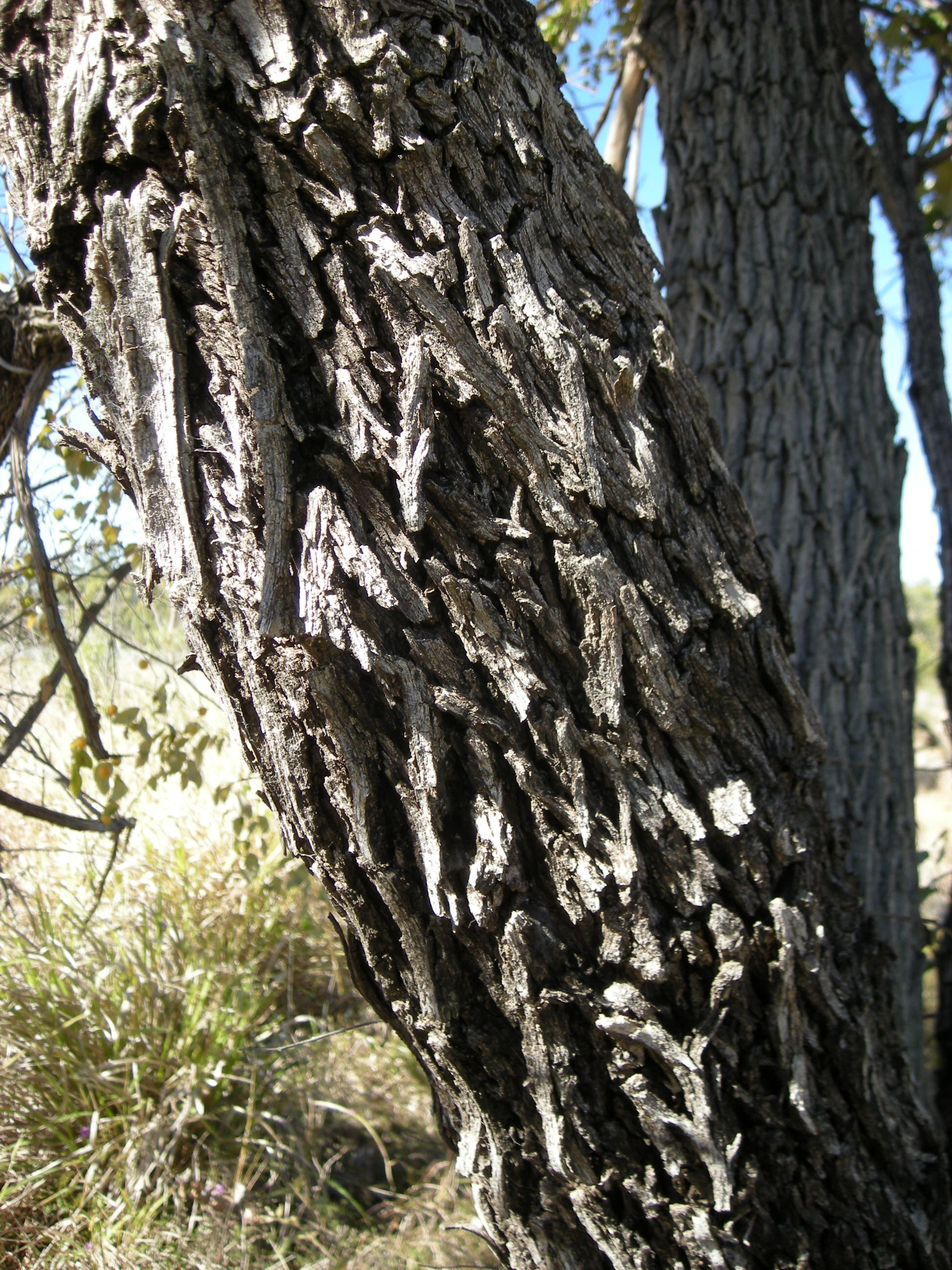 Ziziphus mauritiana, Mount Archer National Park, Rockhampton